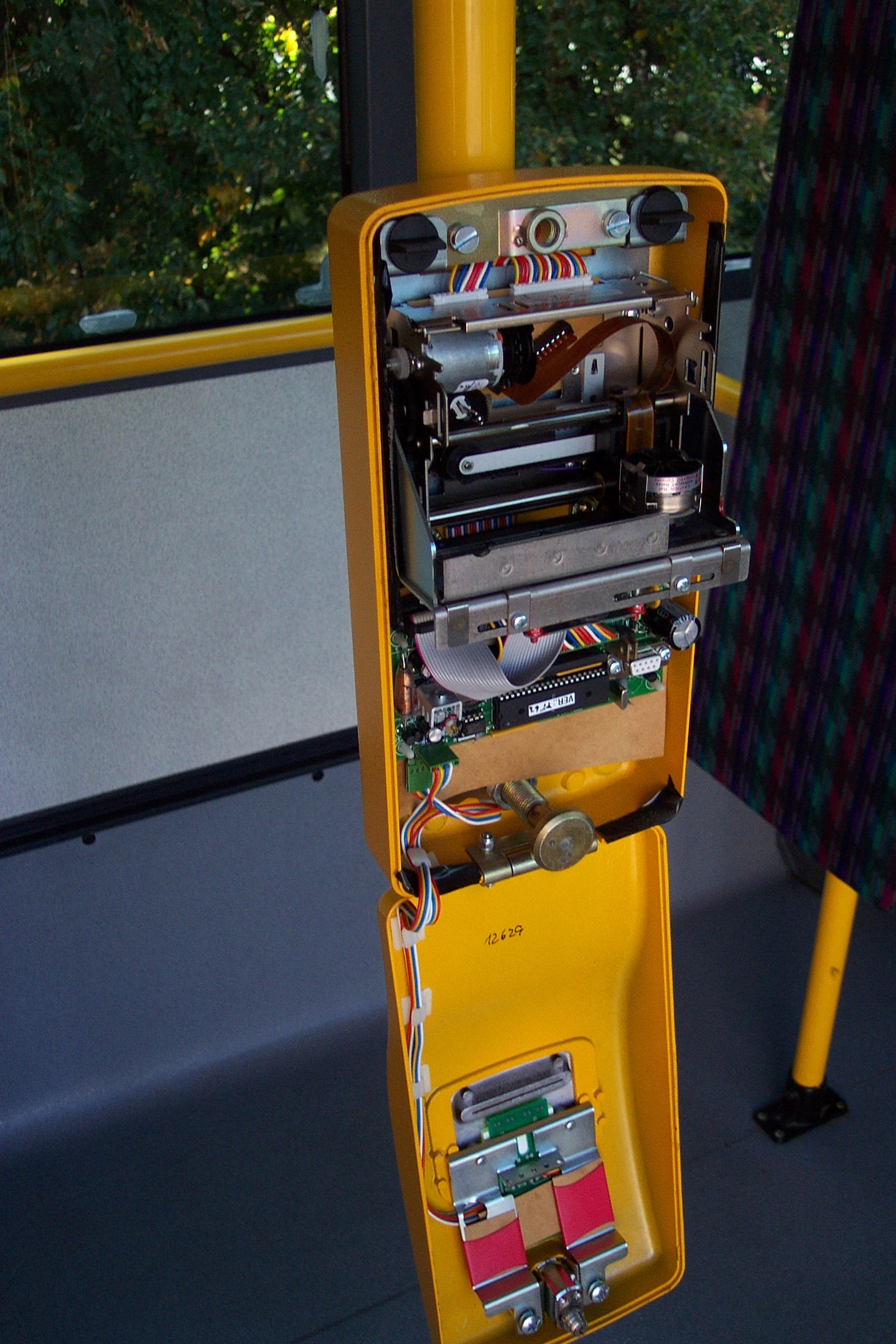 Tickets designator, dismatled. Klíčov bus garages in Prague during the opened doors day in september 2007.